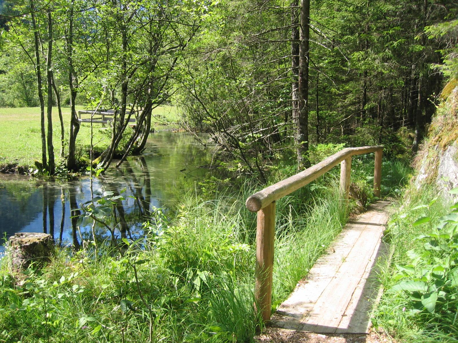 Spring of Črna in Logarska dolina, Slovenia. One of sources of river Savinja. photo:Ziga 08:06, 13 August 2006 (UTC)